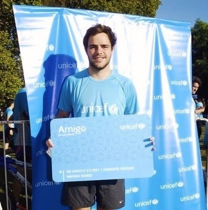 Peter Lanzani en carrera UNICEF por la educación